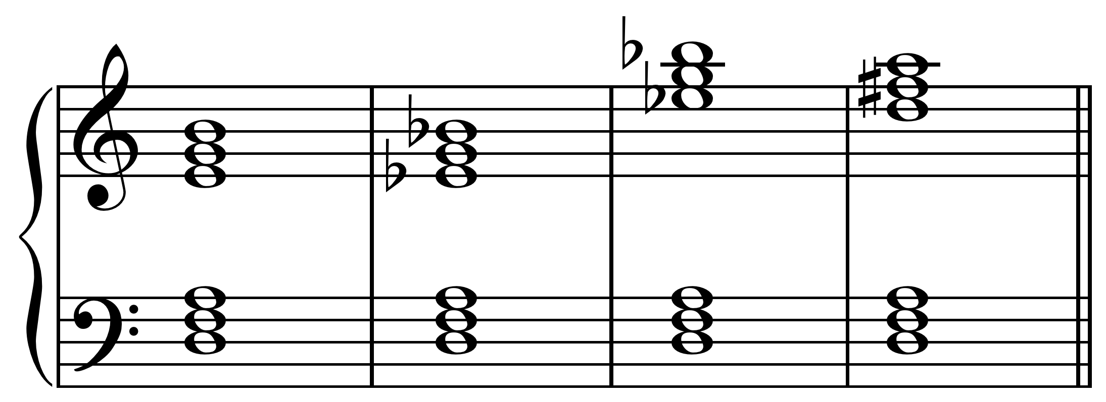 Various polychords over Dm. Created by Hyacinth (talk) 23:30, 6 July 2009 using Sibelius 5.